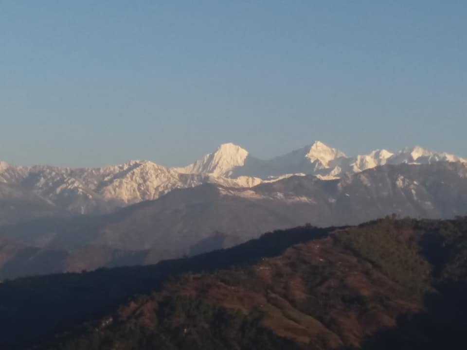 You can see the view like this from Suryachaur